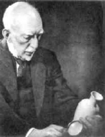 Portrait of George Eumorfopoulos (1863-1939), English collector of Oriental art